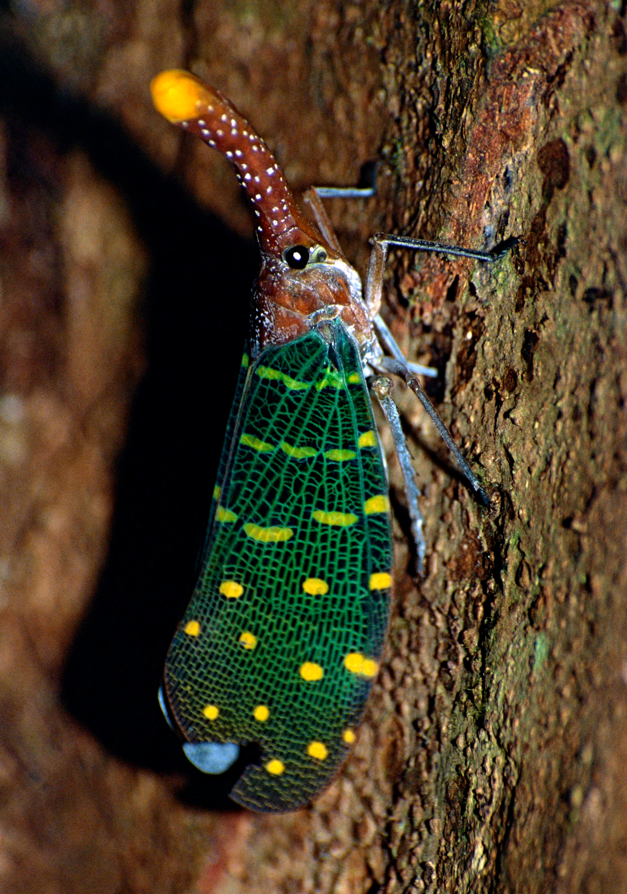 Niah Caves NP, Sarawak, MALAYSIA Scanned slide from 2001